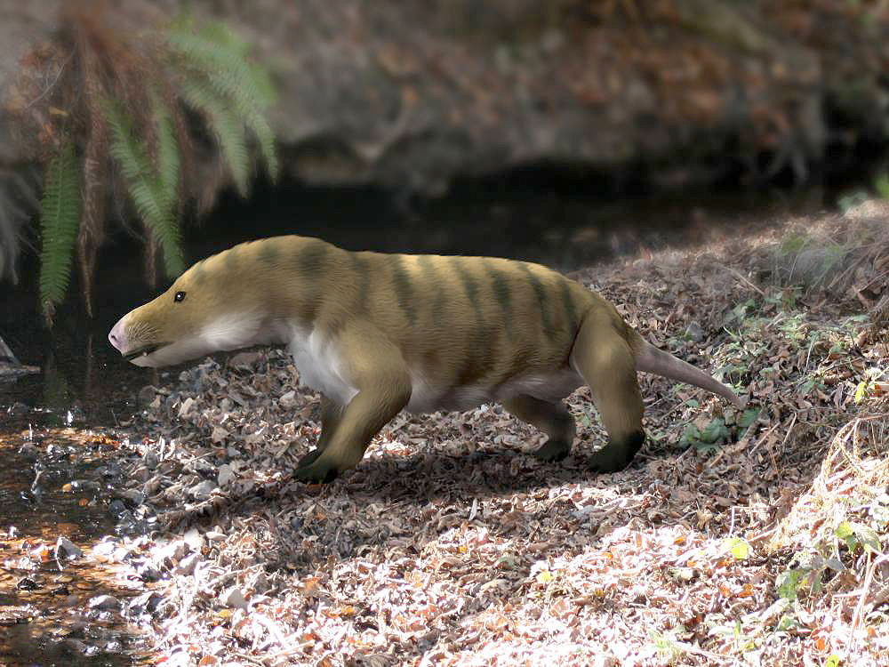 Life restoration of Probainognathus jenseni'